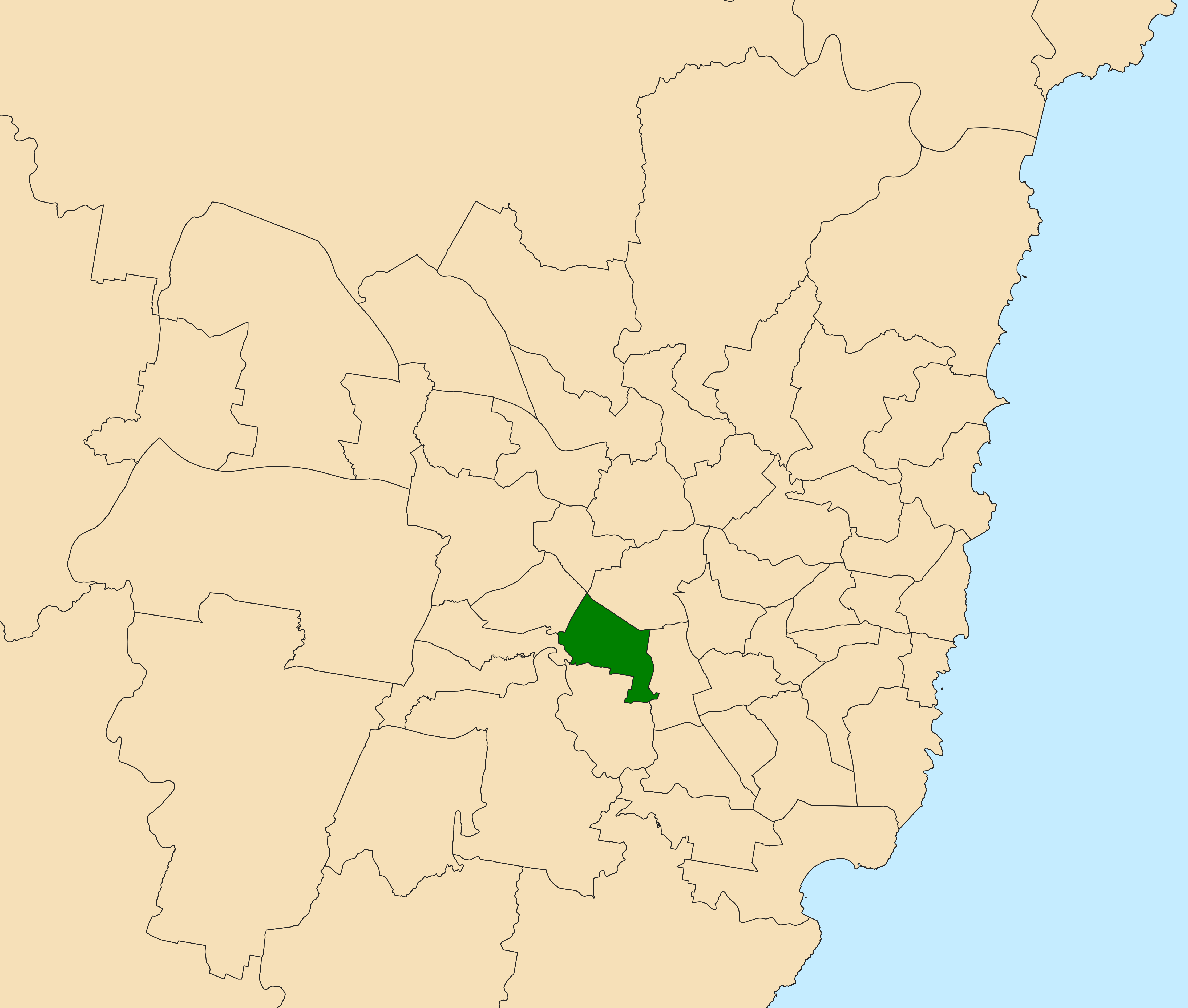 Location of the state electoral district of Bankstown (dark green) in the metropolitan Sydney area as of the 2019 New South Wales state election. Incorporates or developed using Administrative Boundaries ©PSMA Australia Limited licensed by the Commonwealth of Australia under Creative Commons Attribution 4.0 International licence (CC BY 4.0).